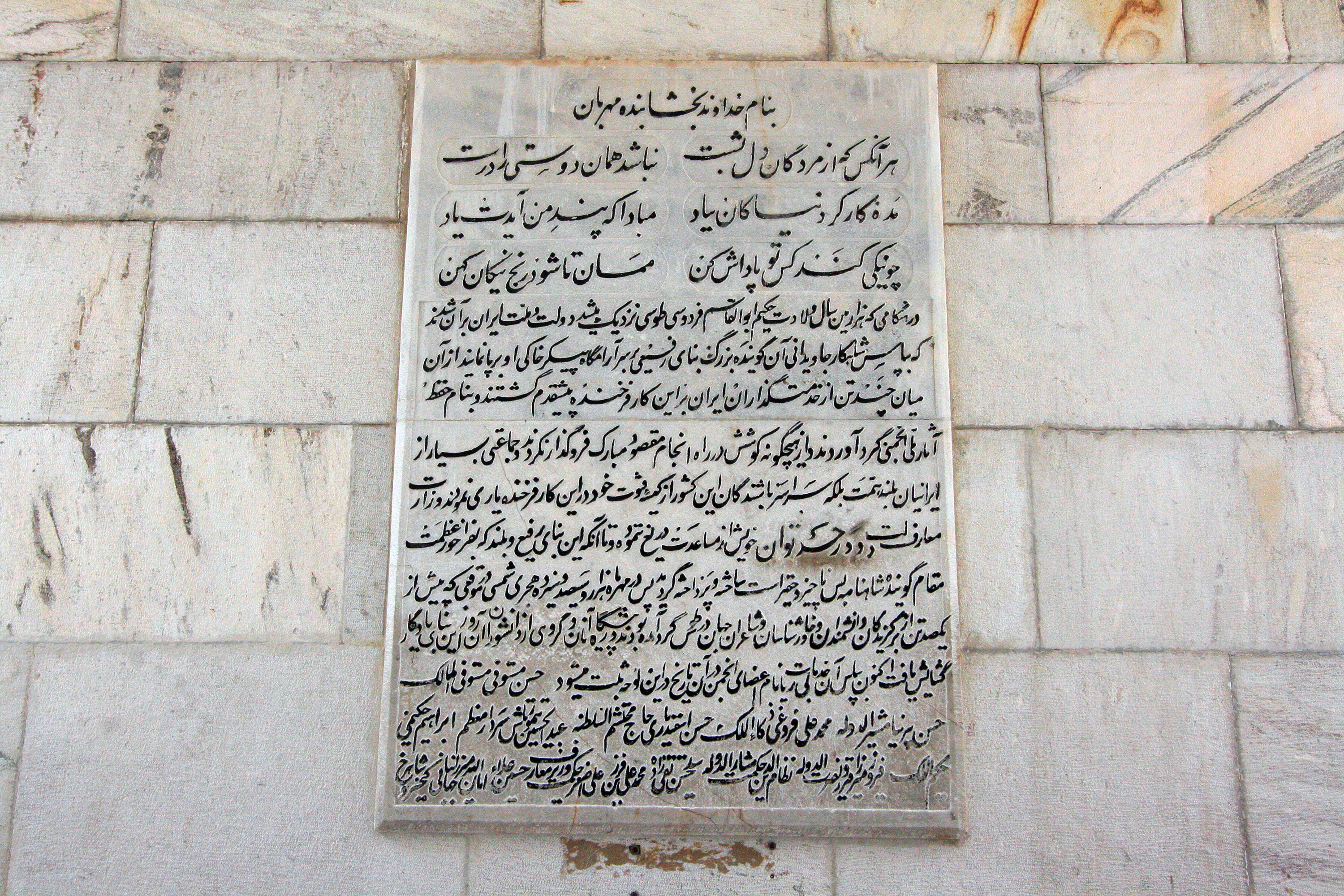 The Shahnameh, also transliterated as Shahnama is a long epic poem written by the Persian poet Ferdowsi between c. 977 and 1010 CE and is the national epic of Greater Iran.